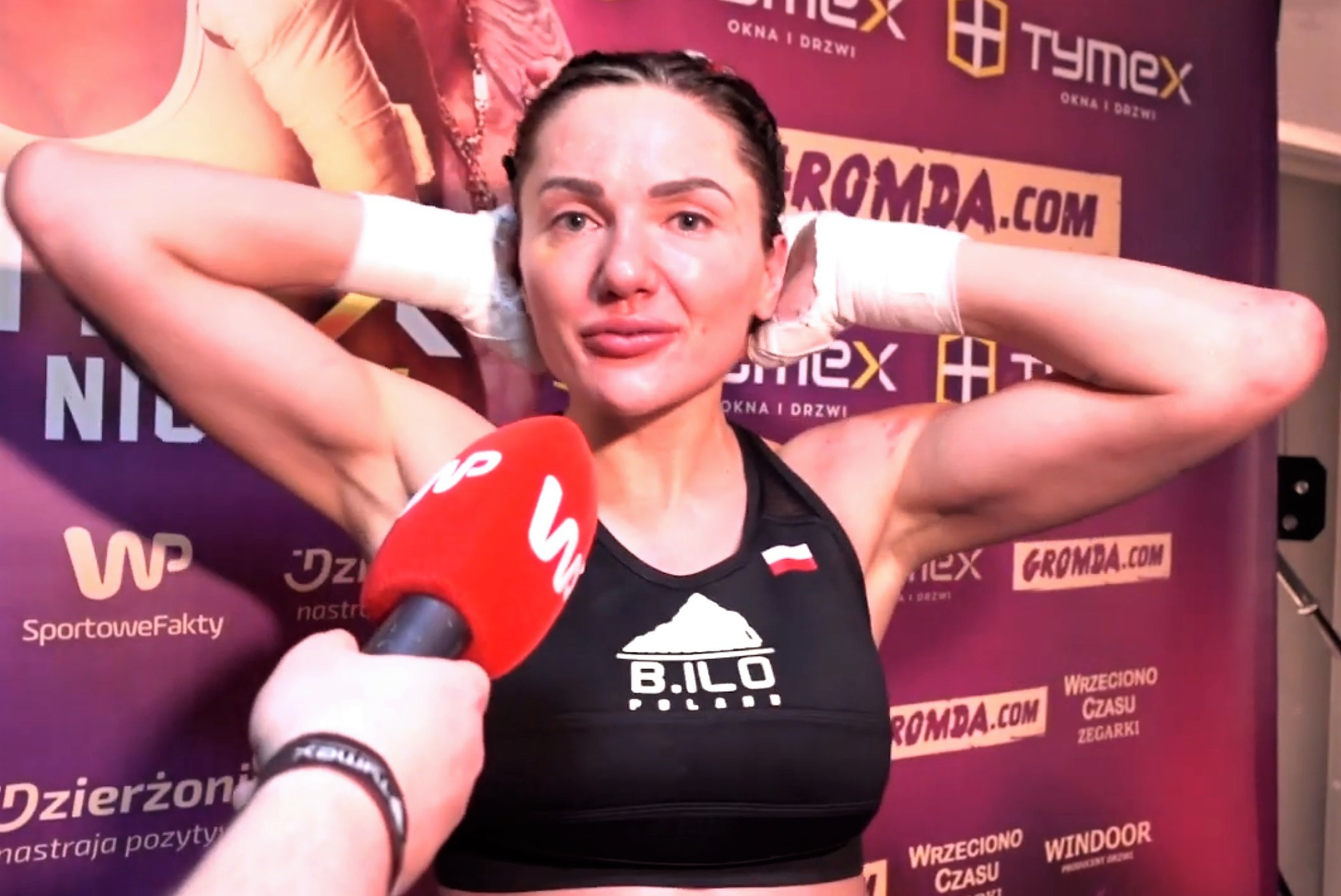 Ewa Brodnicka after the fifth defense of the WBO Championship // TYMEX BOXING NIGHT 11 DZIERŻONI